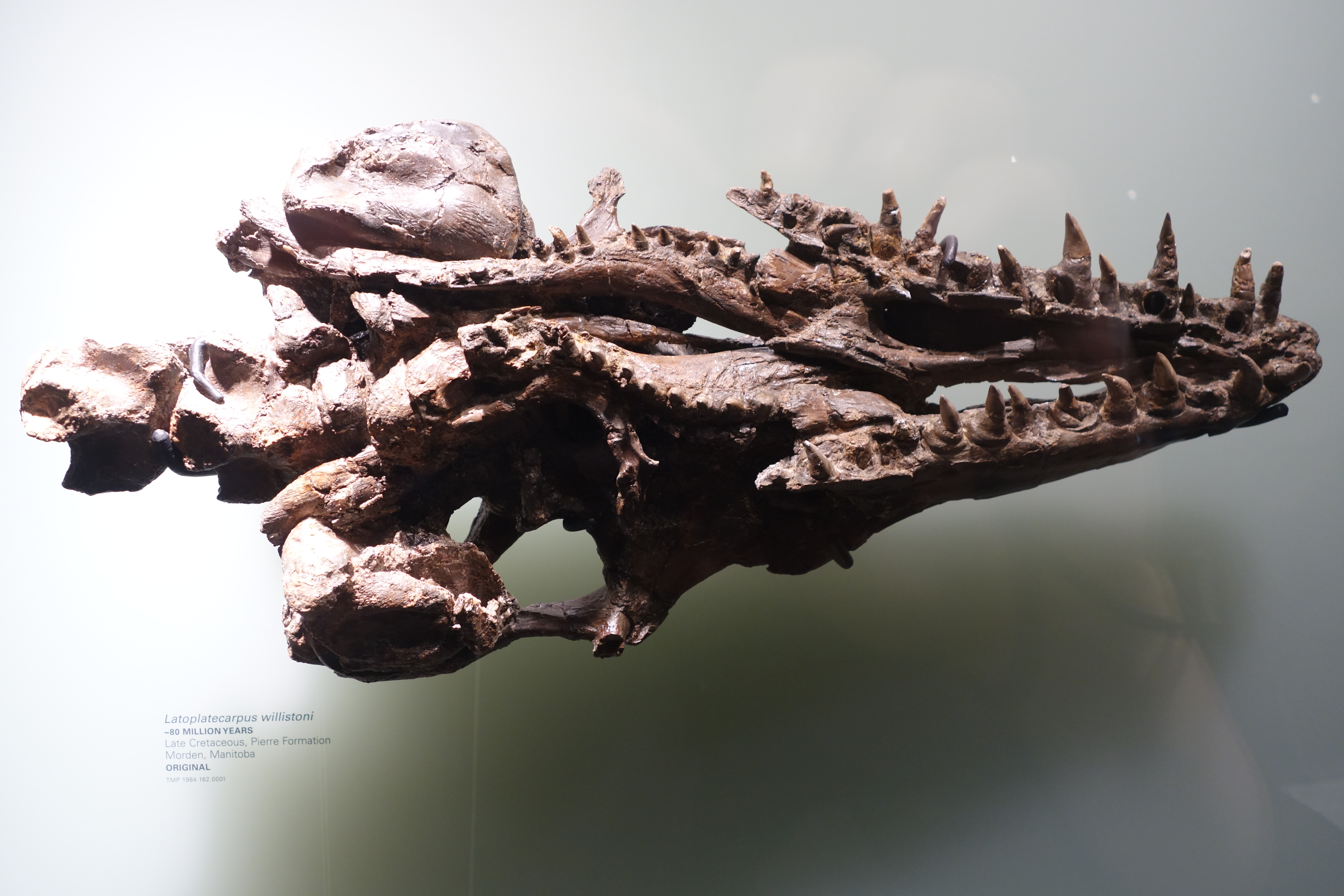 Latoplatecarpus willistoni skull in oblique ventral view (original). From the Pierre Formation, Morden, Manitoba. Specimen number TMP 1984 162 0001. On display at the Royal Tyrrell Museum, Alberta, Canada.